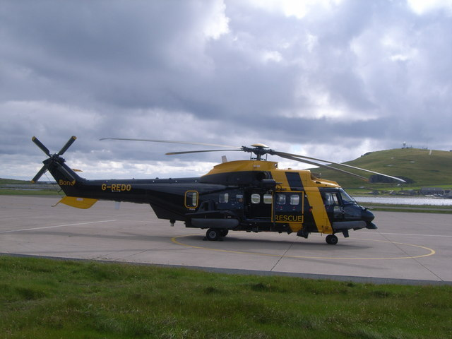 Rescue helicopter at Sumburgh Airport